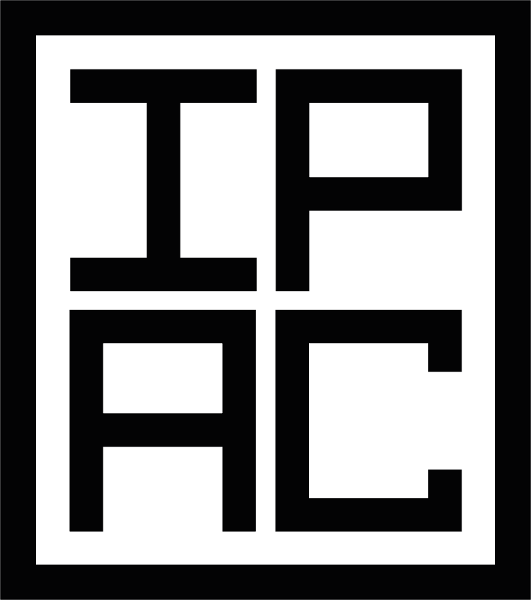 Political forum Logo